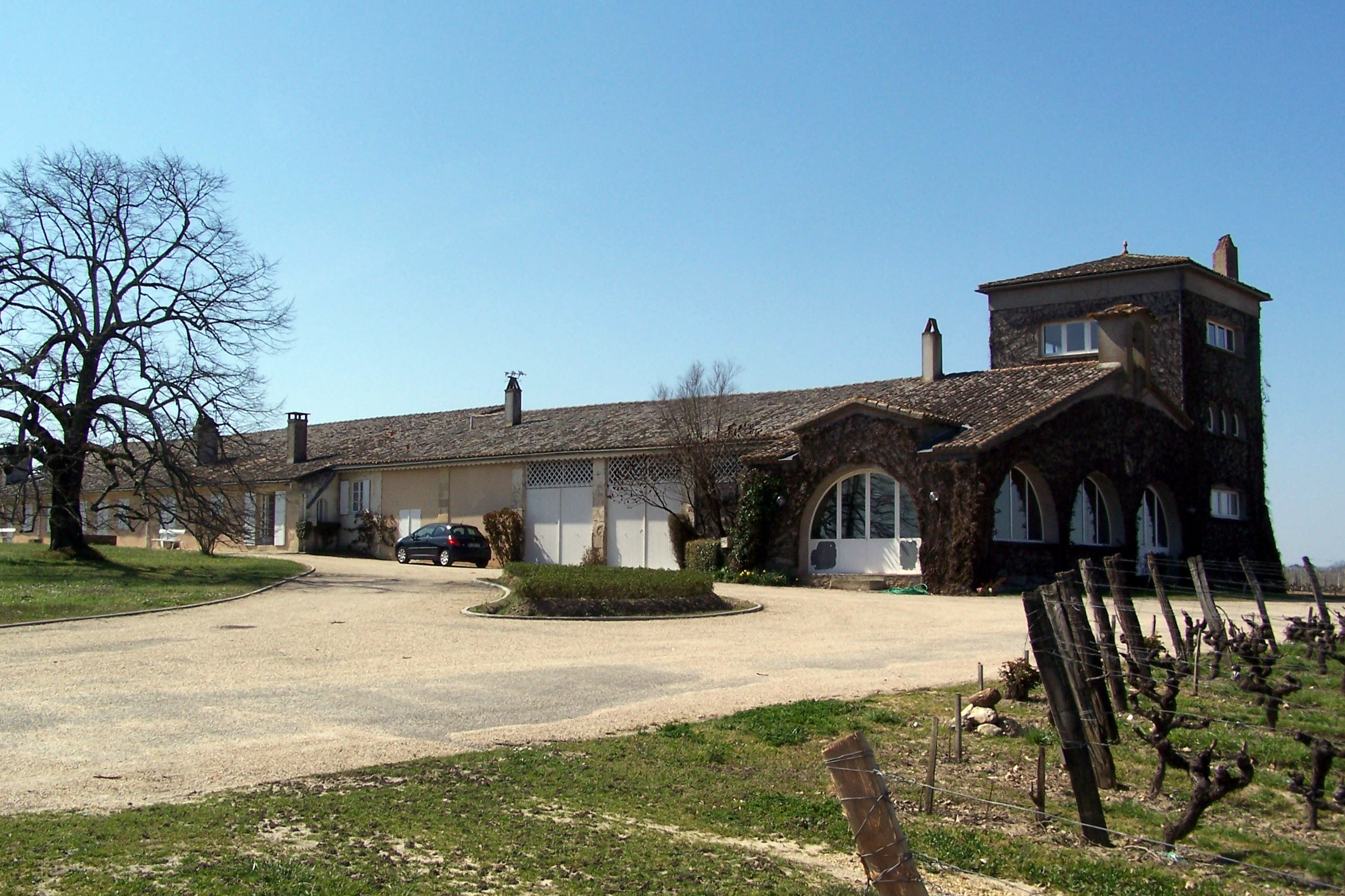 Château Rieussec in Fargues (Gironde, France)